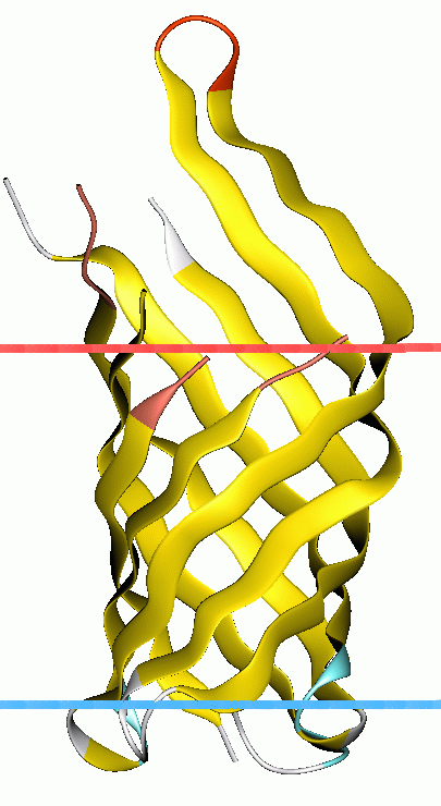 Protein image from OPM database